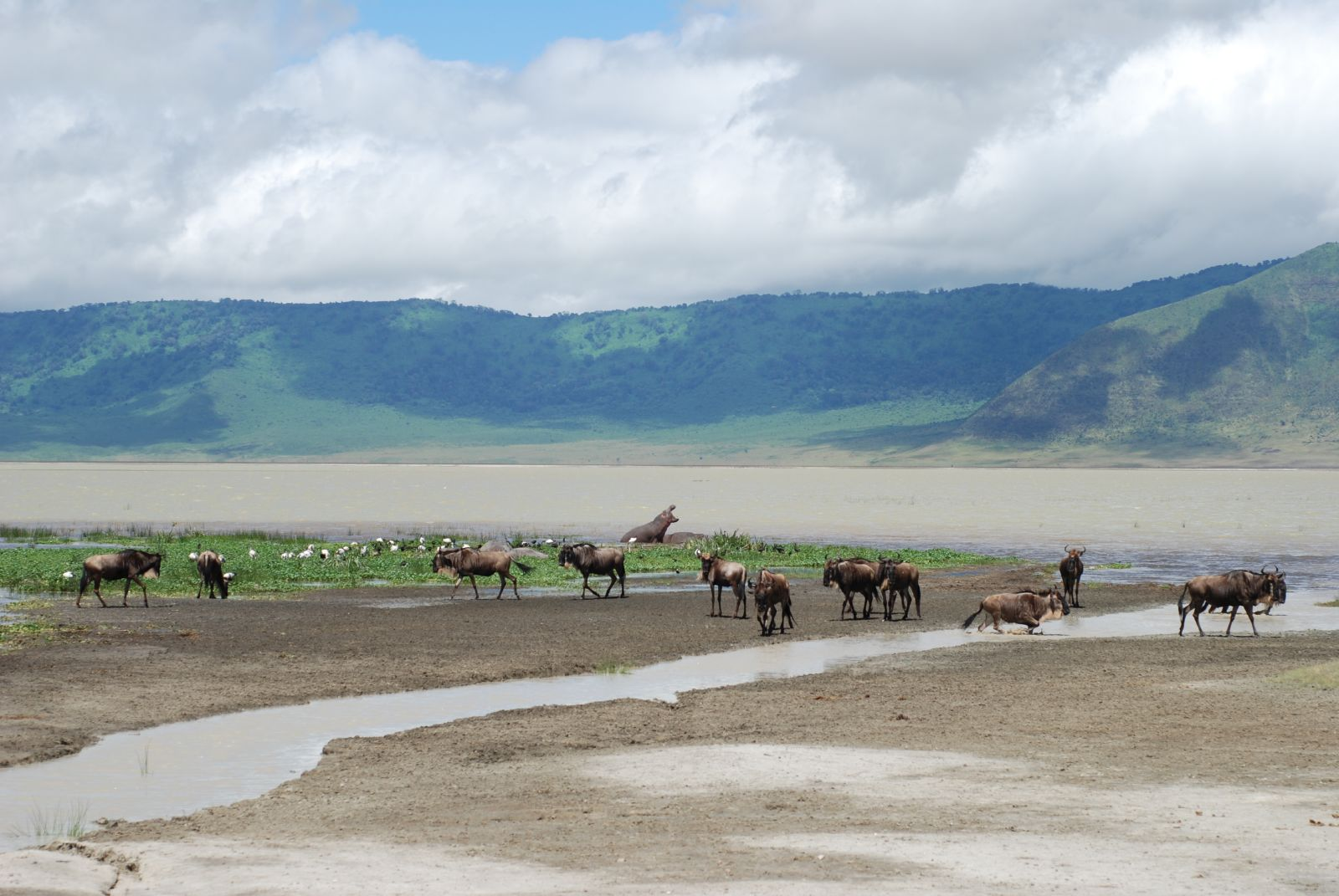 A hippo in the distance, among wildebeest and ibises.